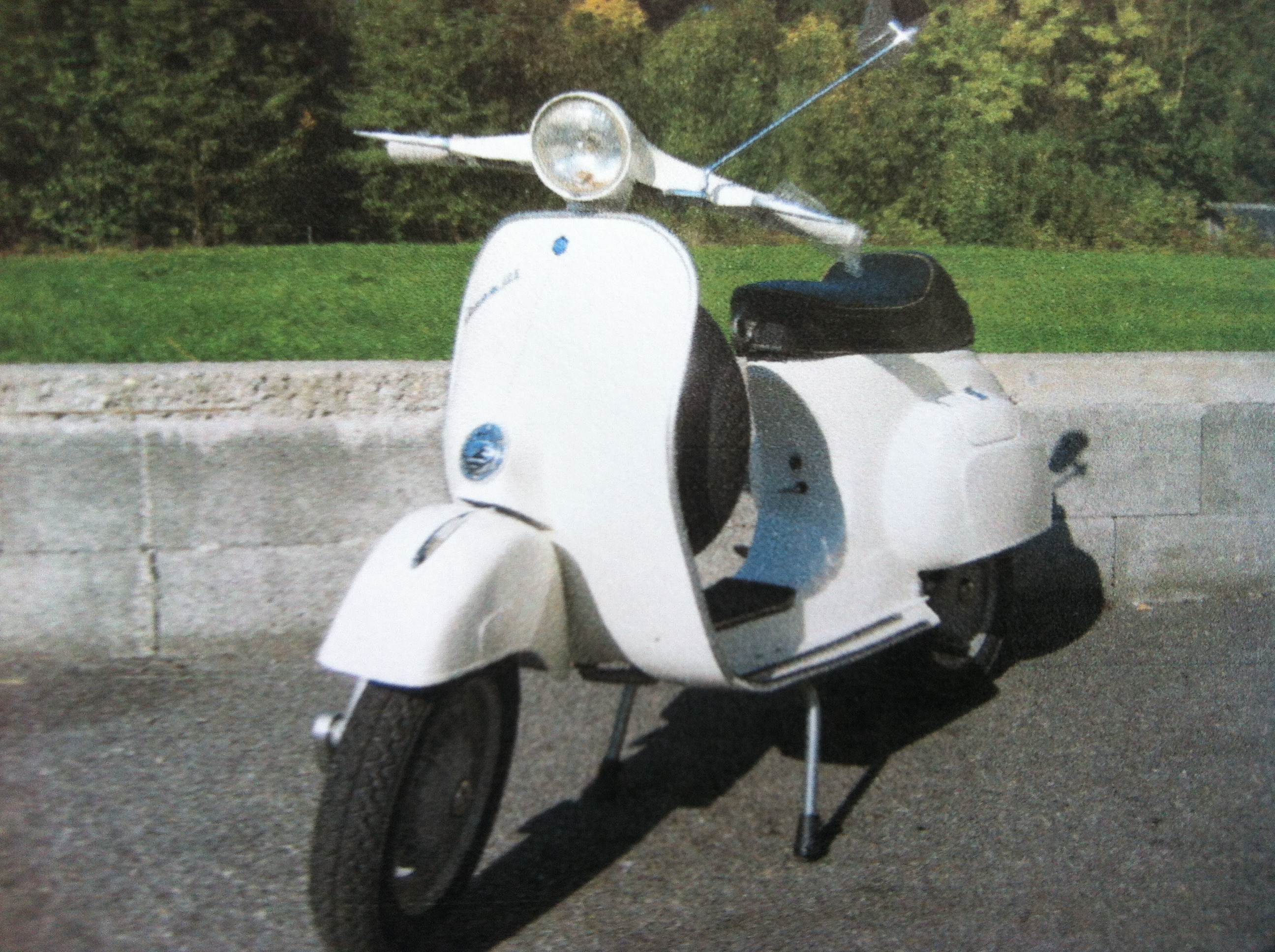 Vespa 125 Primavera, 1972, VMA2T